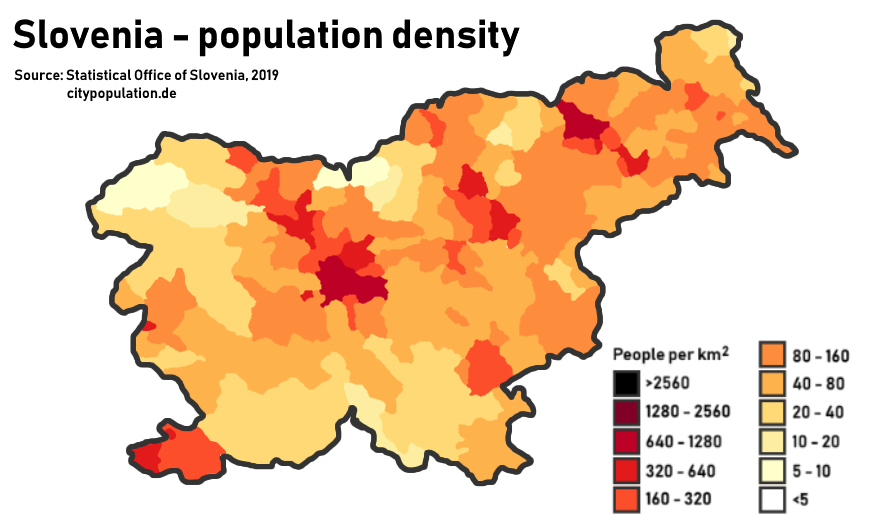 A map representing the population density in Slovenia by municipality, as of 2019